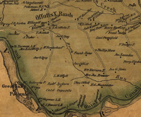 Portion of 1865 Montgomery County, Maryland, map showing Offutts Crossroads (eventually renamed Potomac). C&O Canal Lock 21, lock keeper Thomas Tarman, is to the southwest.